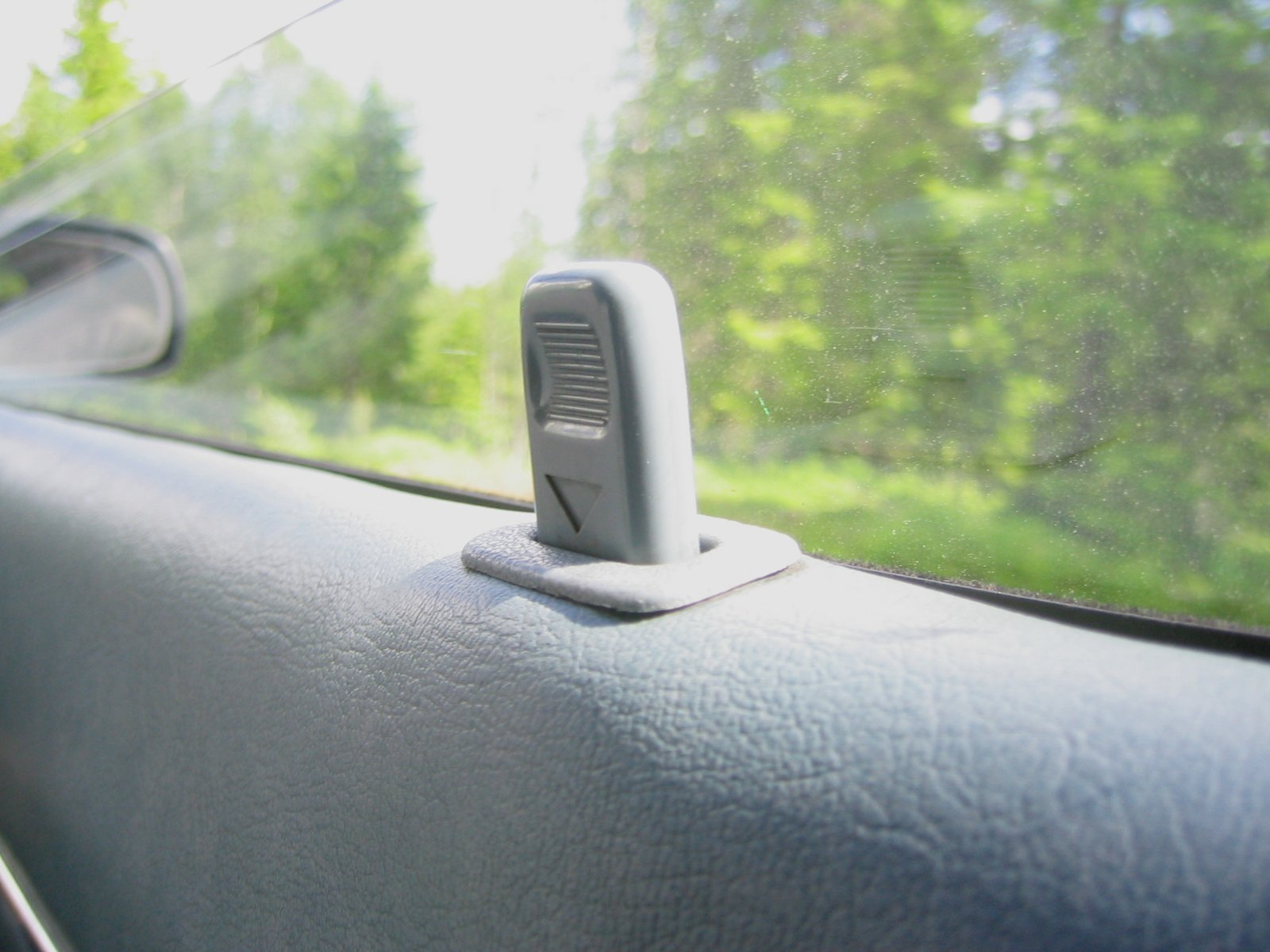 The doorlocker on a Mazda 323. Photographer: Einar Faanes Camera: Canon Ixus v3 Afterwork: Cutting and regulation of light and colour in the GIMP